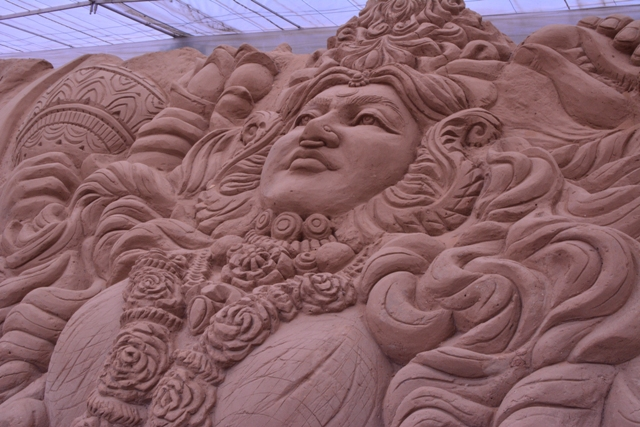 This pic was taken at Sand Museum, Mysore